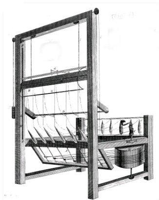 An image of Thomas Highs' spinning jenny design